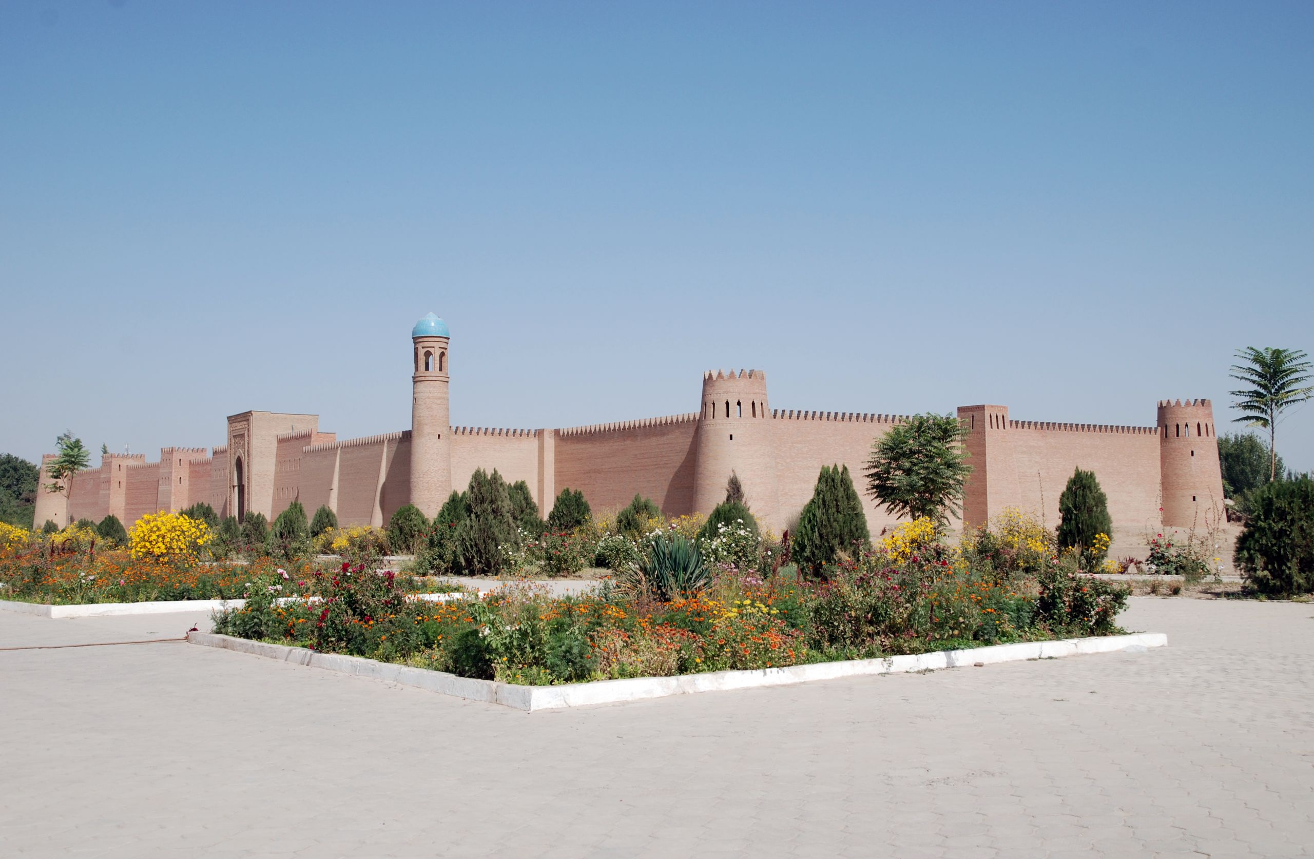 Hulbuk, Khurbon Shahid, entrance citadel